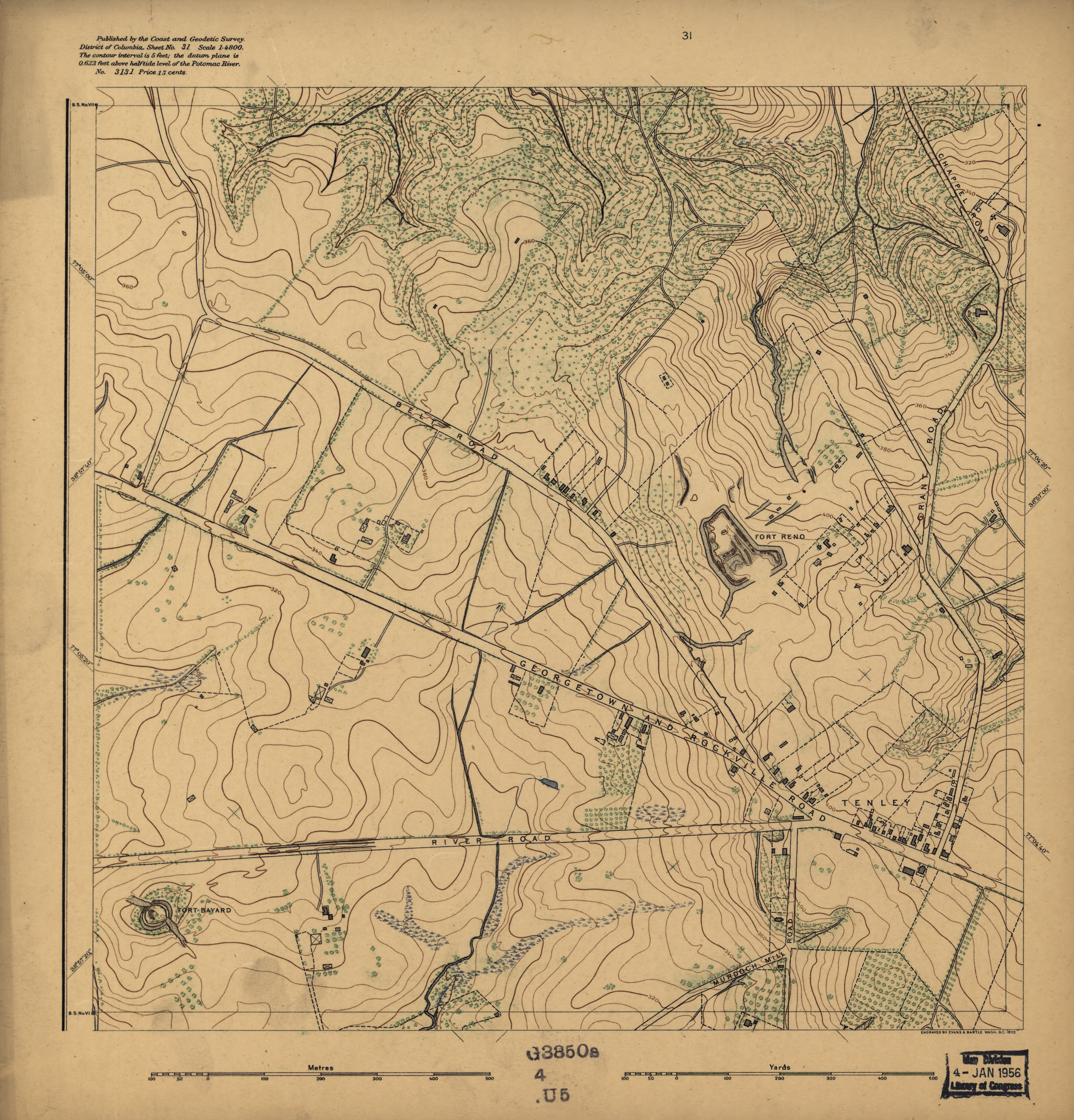 Topographic map showing lot lines, buildings, and woods. Covers District of Columbia outside former Washington city limits (Florida Avenue).